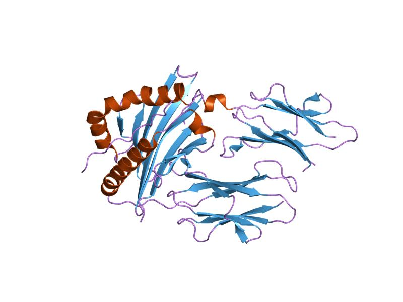 Cartoon representation of the molecular structure of protein registered with 1es0 code.